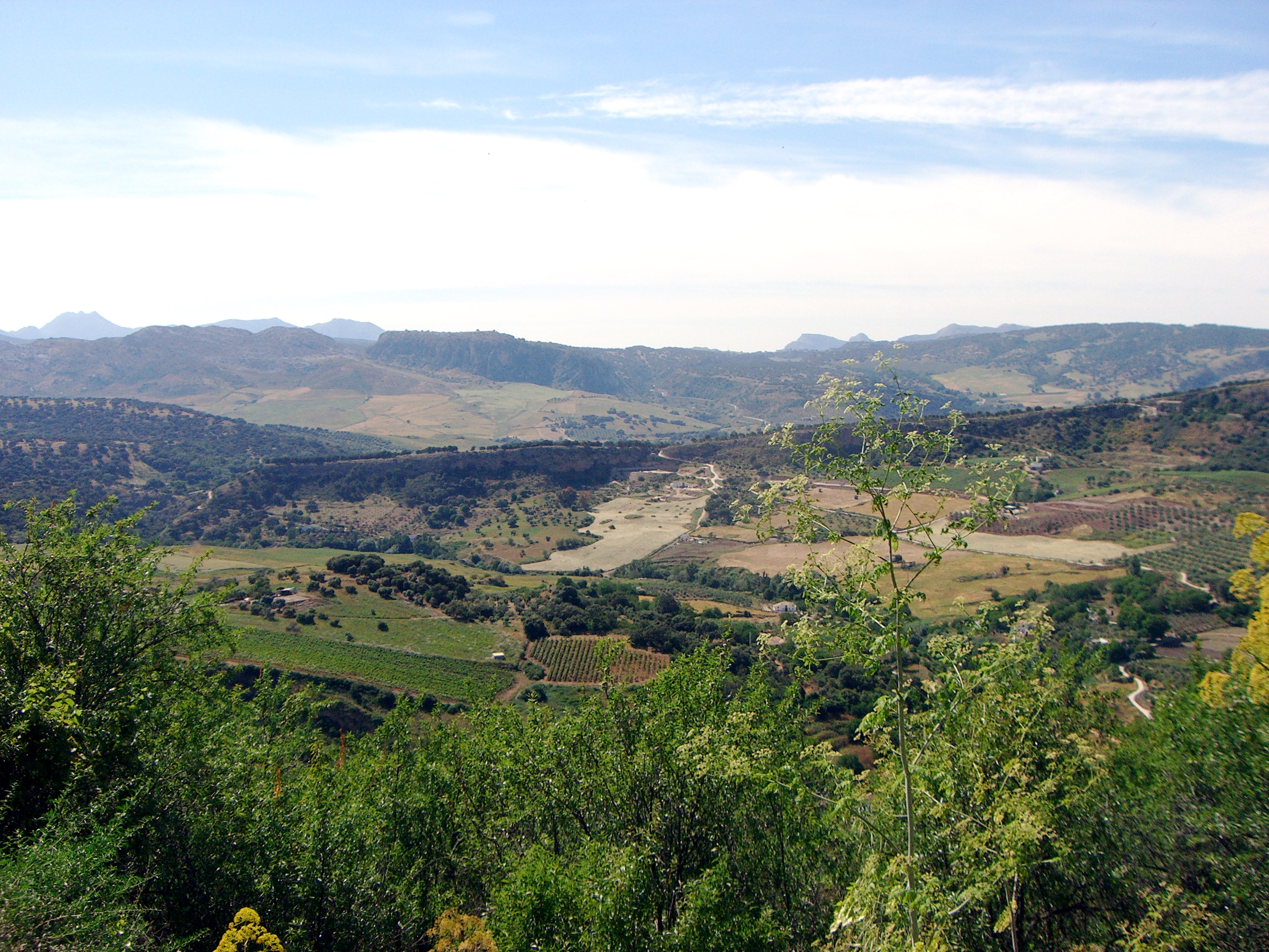 Hoya de Ronda, Spain.